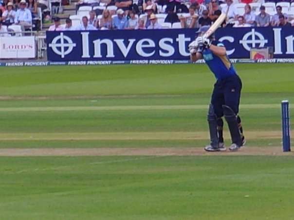 Seen here leaving a delivery, Adams top scored with 55 in Hampshire's successful chase of 221/4 against Sussex.